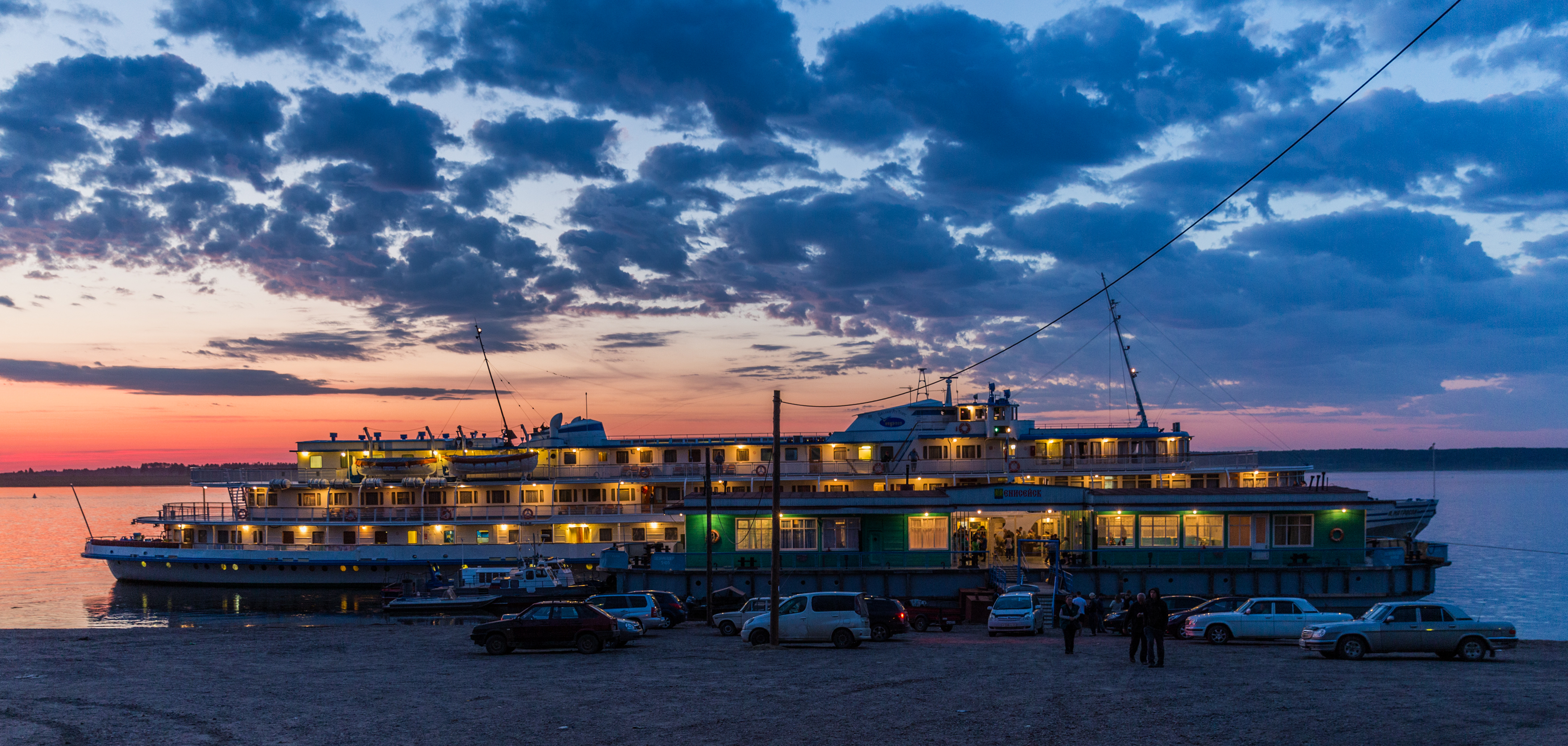 Yeniseisk Port